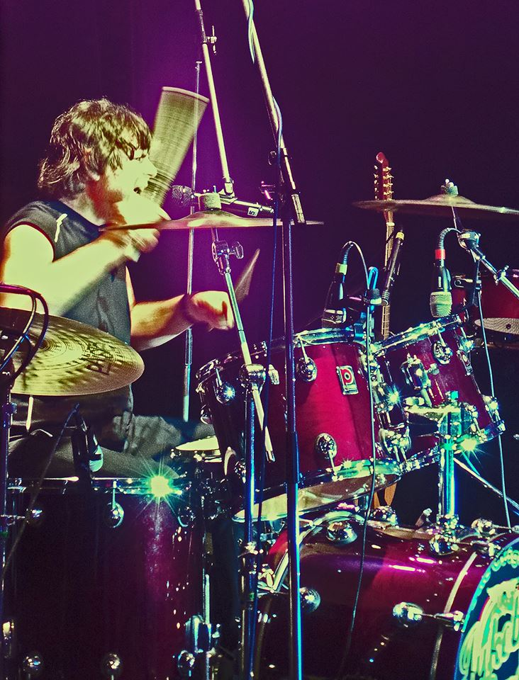 Photo